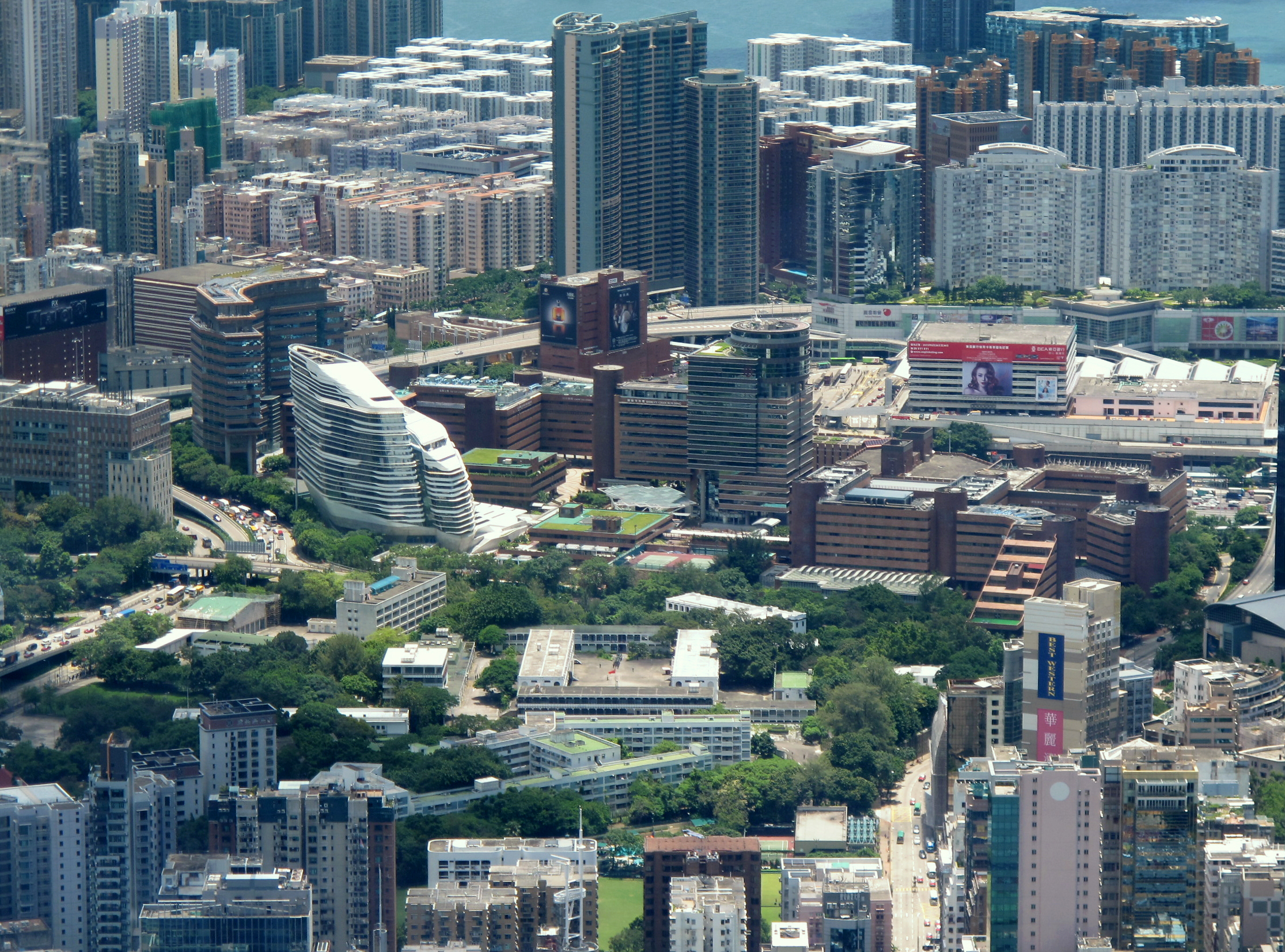 The Hong Kong Polytechnic University Campus View